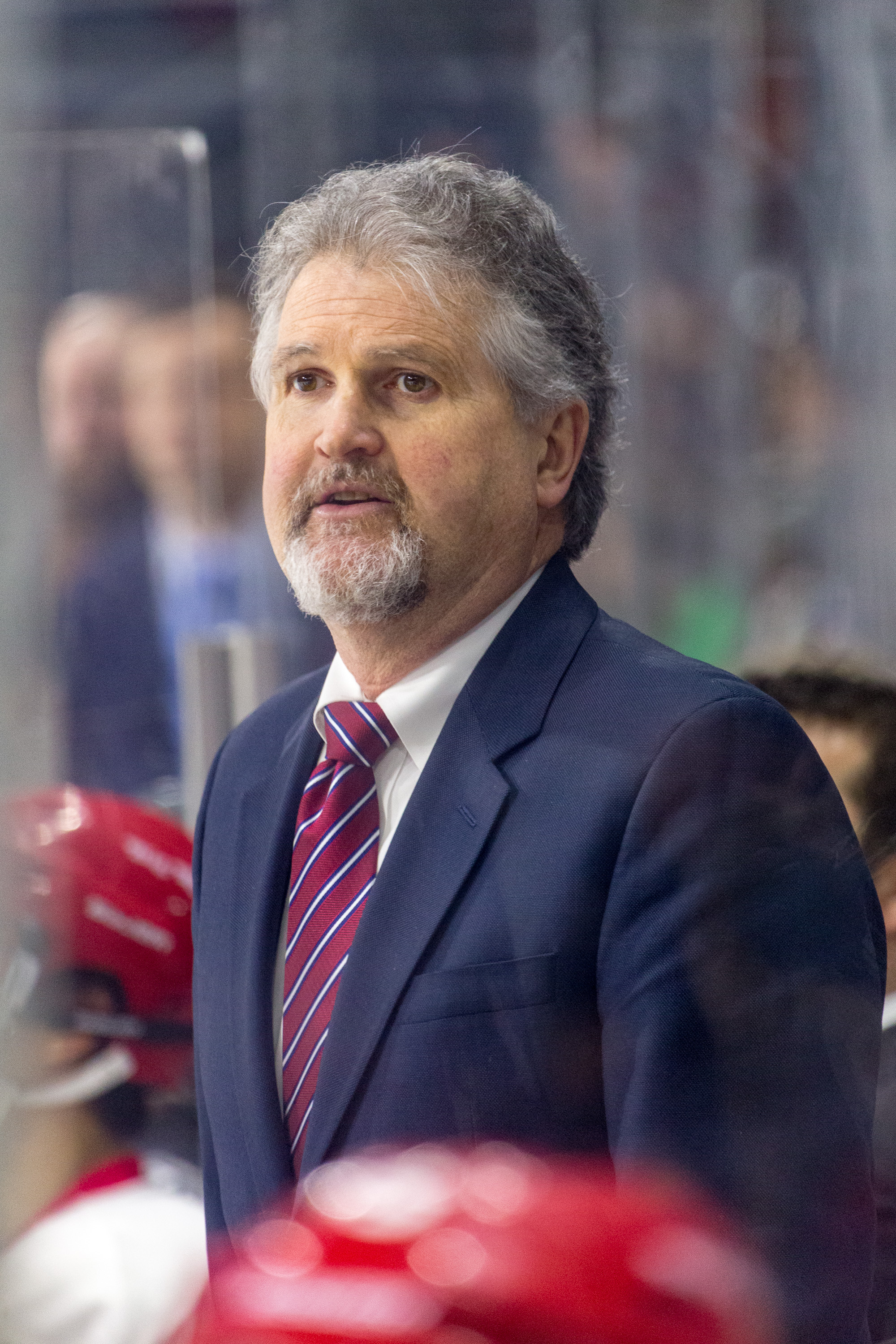 Cornell University ice hockey coach Mike Schafer. NCAA Hockey East Regional at the Dunkin’ Donuts Center, Povidence, Rhode Island.